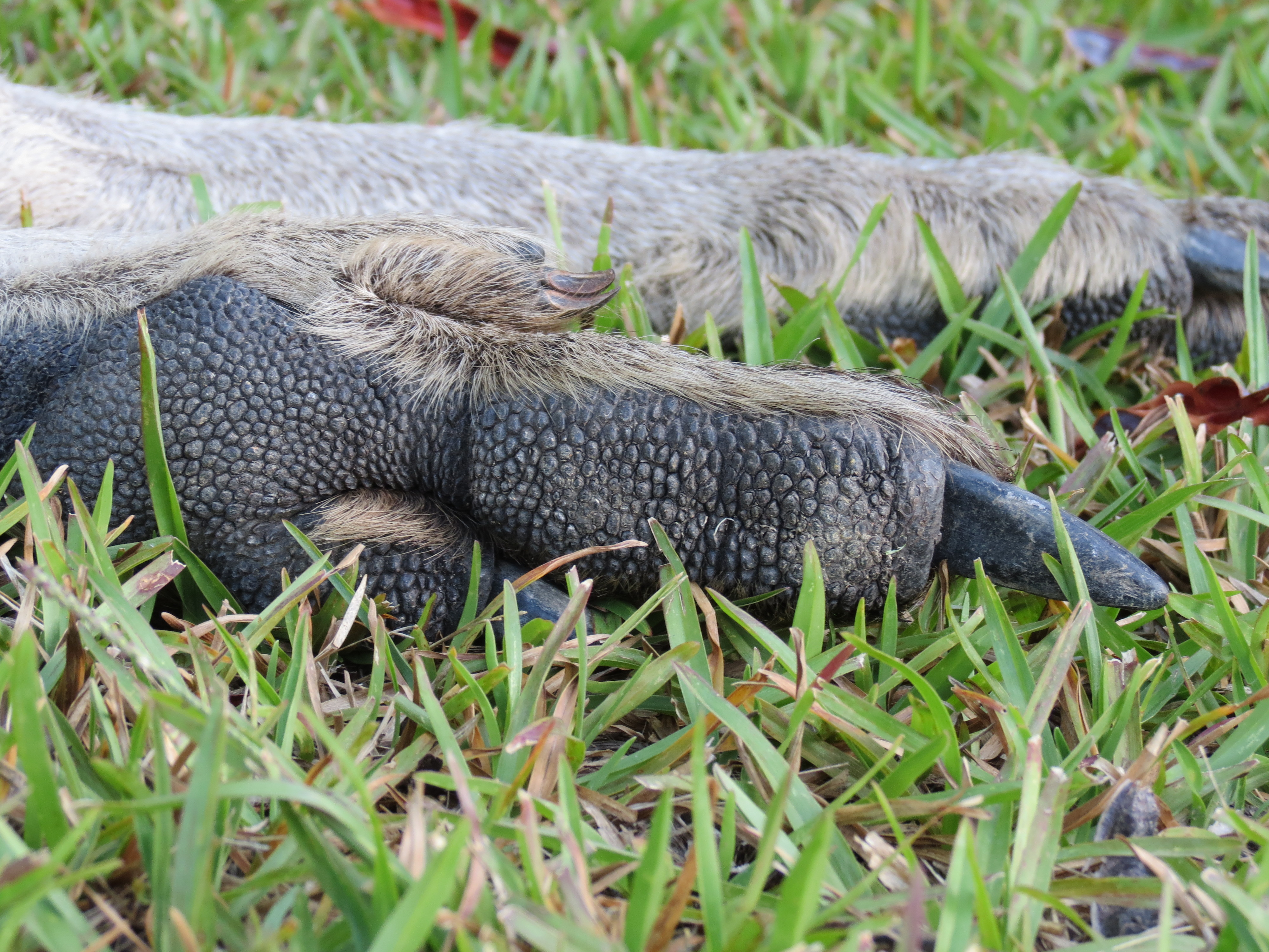 Macropus giganteus Shaw, 1790, Eastern Grey Kangaroo, hind foot underside, Merimbula, NSW, 12 January 2014